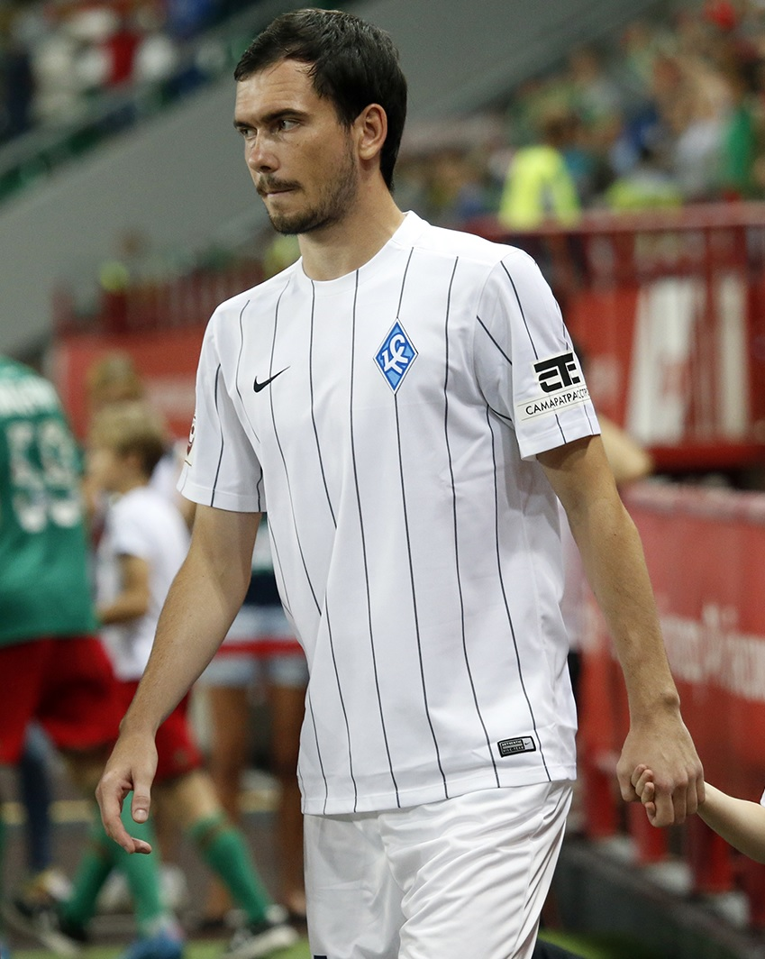 Aleksei Kontsedalov with FC Krylia Sovetov Samara before the game against FC Lokomotiv Moscow.